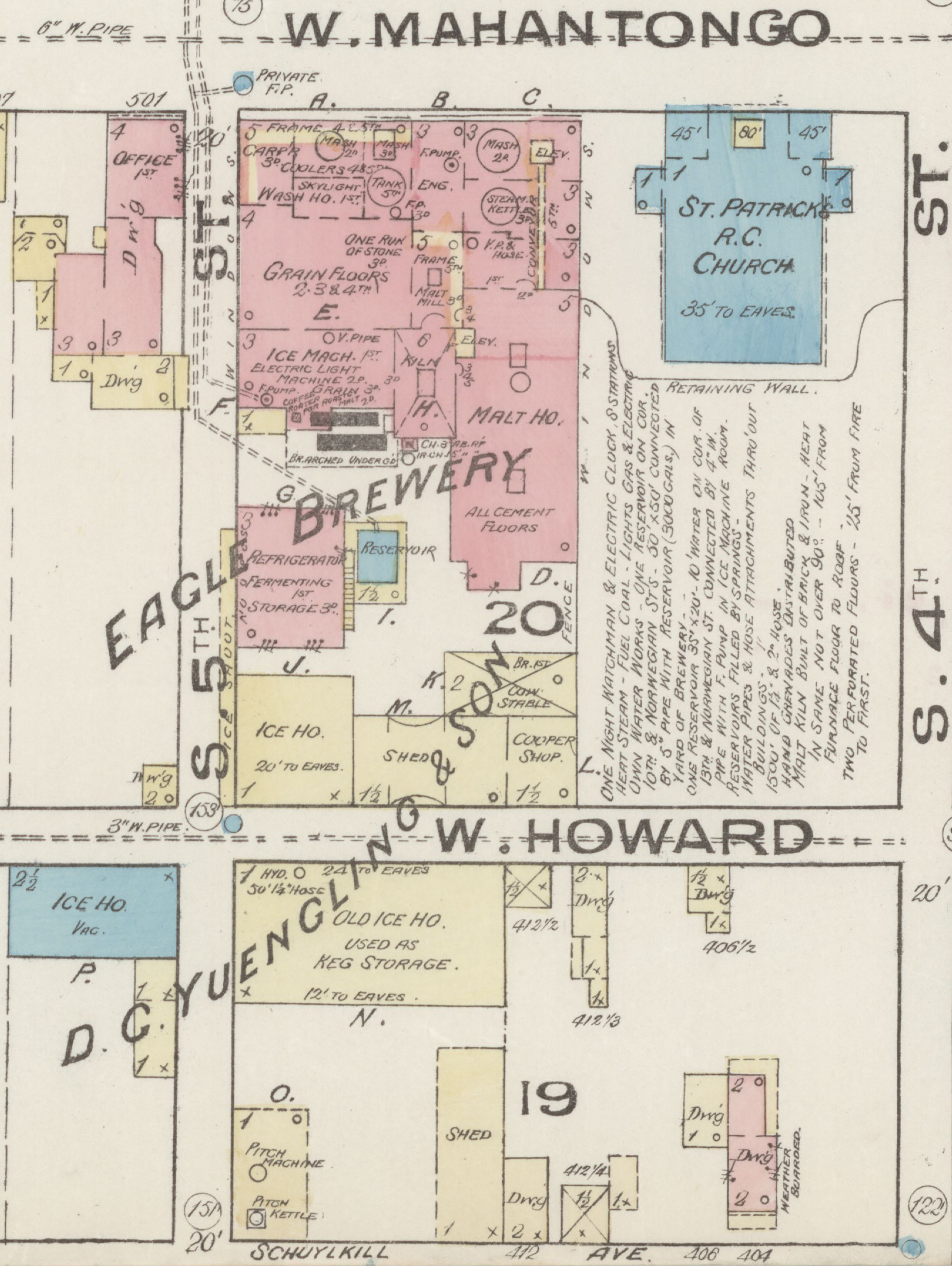 Jun 1885. 9 Sheet(s).